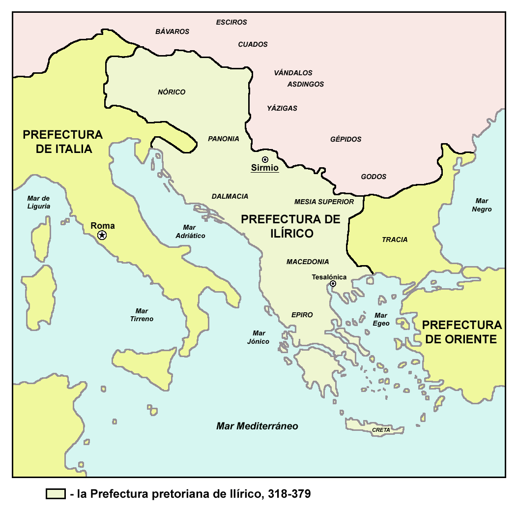 The Roman Praetorian Prefecture of Illyricum, 318-379 AD.